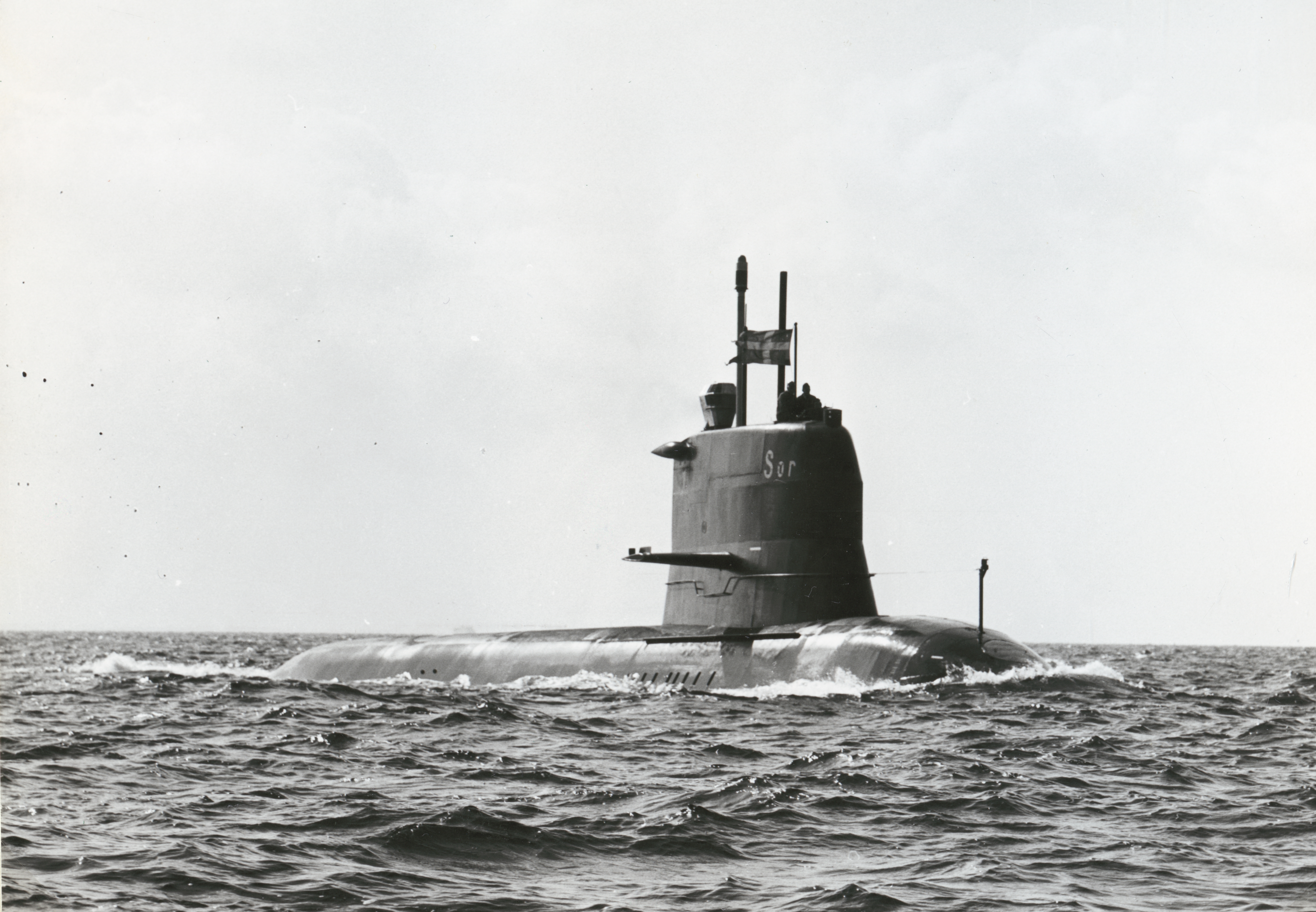 Den svenska ubåten HMS Sjöormen (Sor) ute på en provtur.